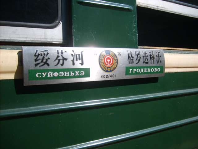 The train running between the two border stations, Suifenhe in China and Grodekovo in Russia